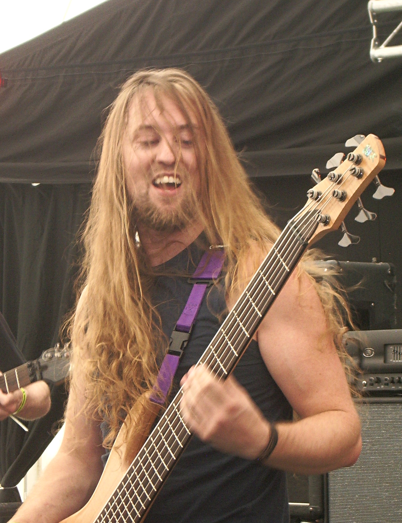 Adrian Lambert performing with Son Of Science at Bloodstock Open Air 2008